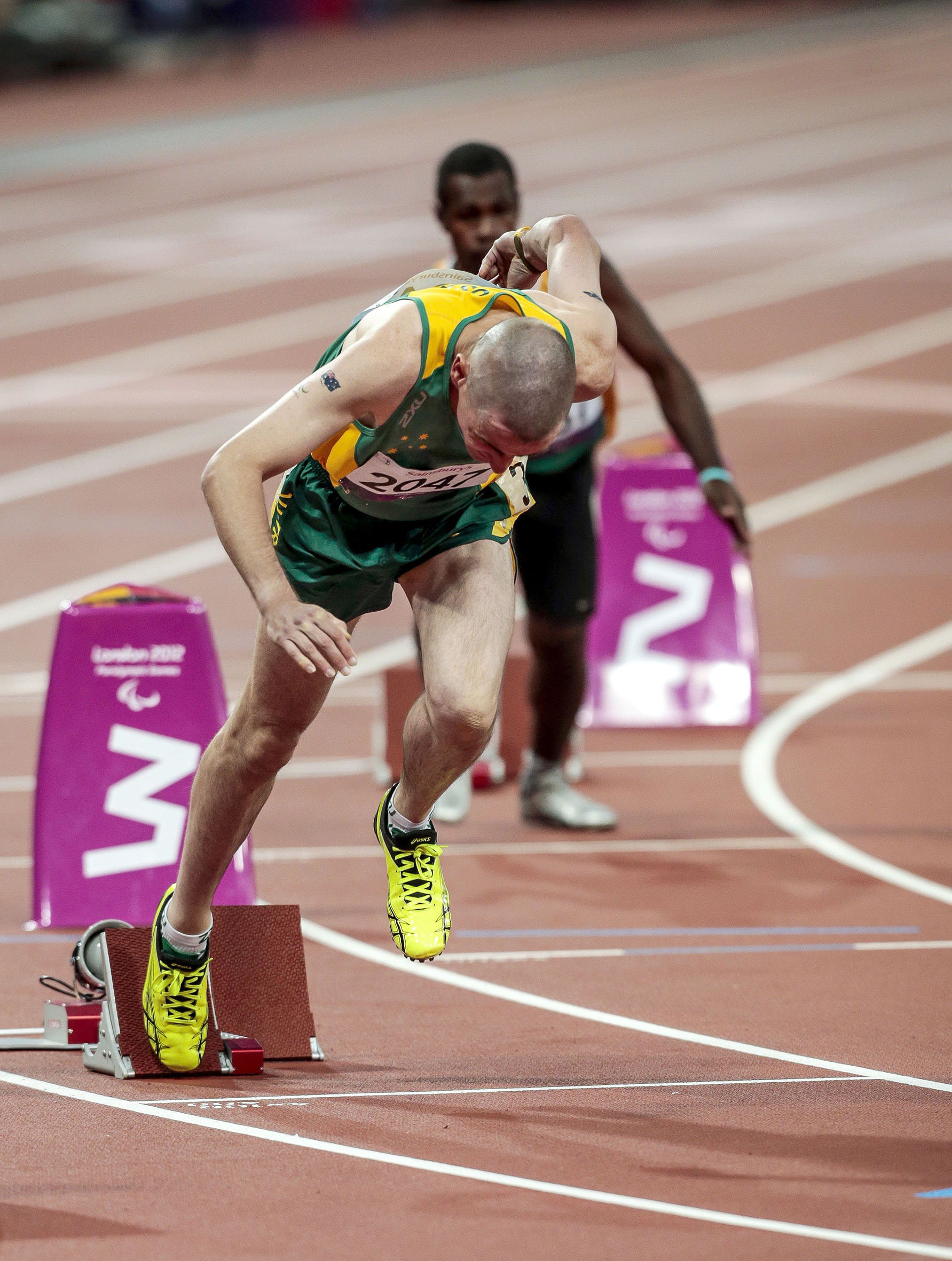 Photograph of Australian Paralympic team member Tim Sullivan at the 2012 Summer Paralympic Games in London